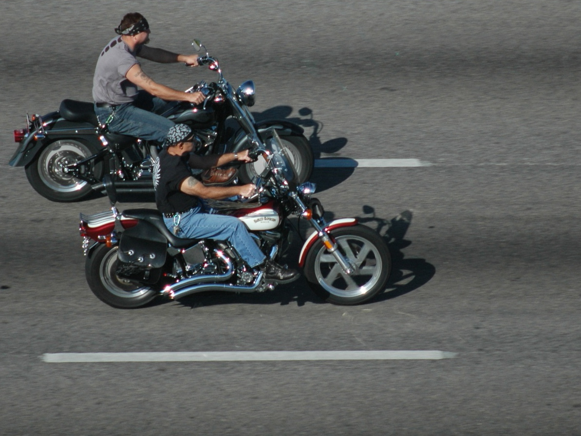 Harley riders on I4